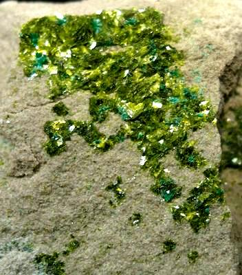 Volborthite Locality: Ridenaur Mine (Ridenour Mine), Prospect Canyon District, Coconino County, Arizona, USA (Locality at ) Size: 5.8 x 4.5 x 4.2 cm. Volborthite is an uncommon hydrated copper vanadate secondary mineral found in the oxidized zones of vanadium-bearing hydrothermal deposits. This fine specimen features scintillating, electric lime-green volborthite plates nicely concentrated on the sculptural matrix of sandstone. Rare.